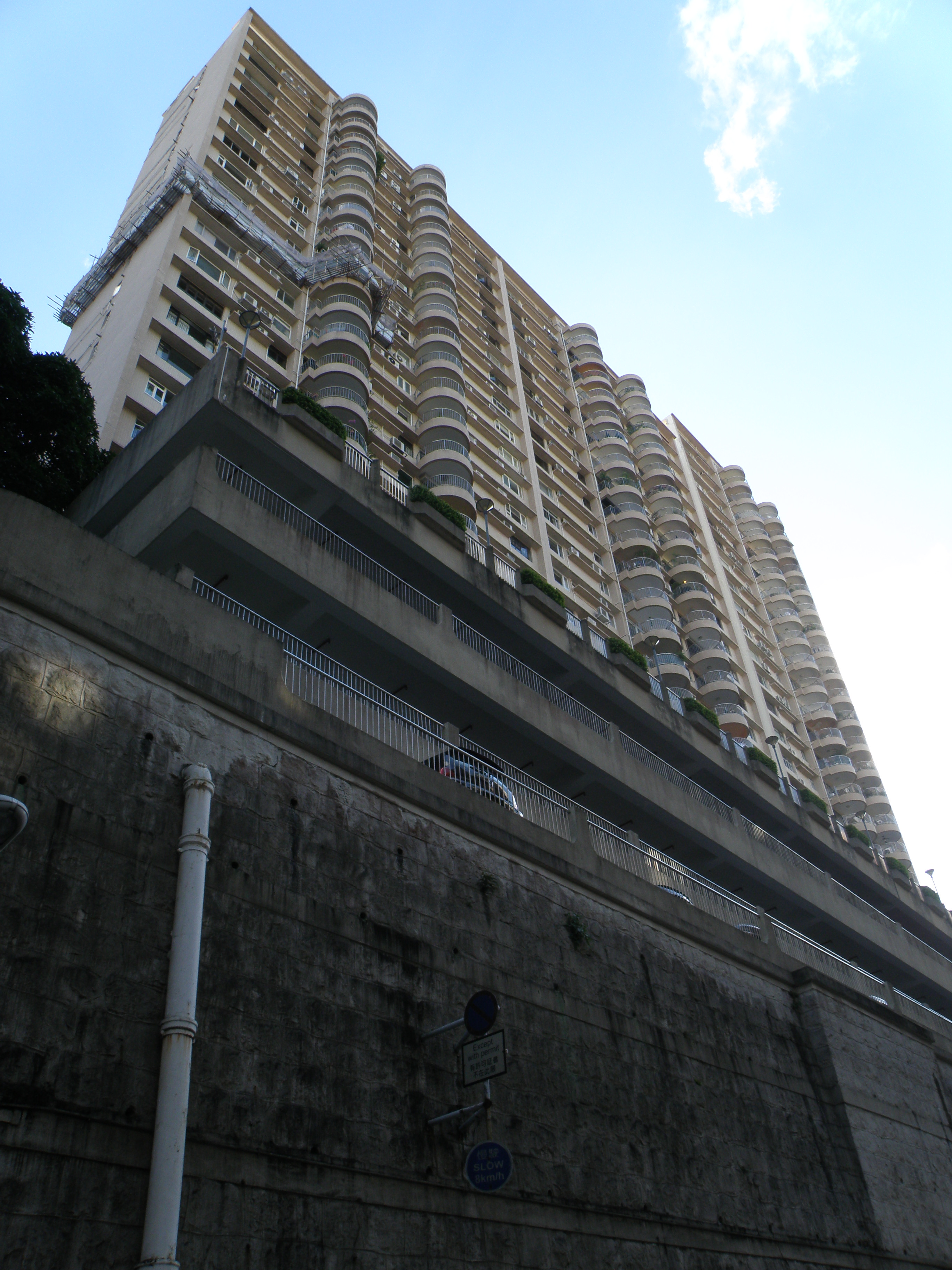 Pearl Gardens in Mid-levels, Hong Kong.